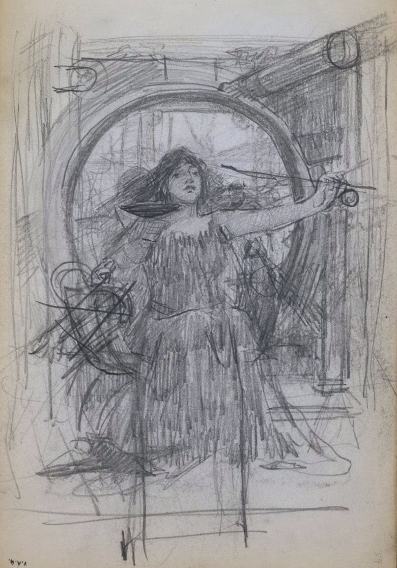 Sketch for Circe